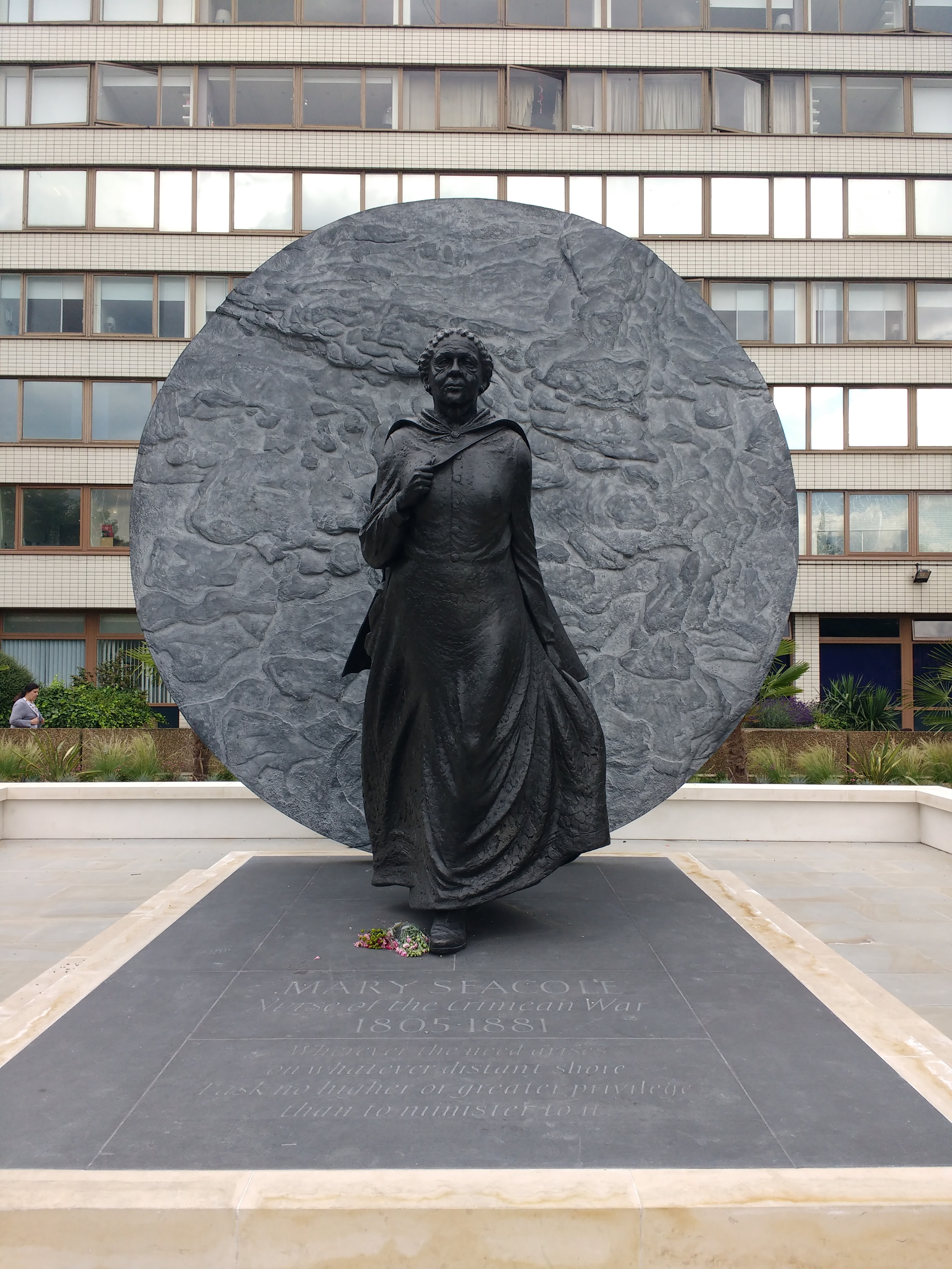 Mary Seacole statue, St Thomas' Hospital, front view